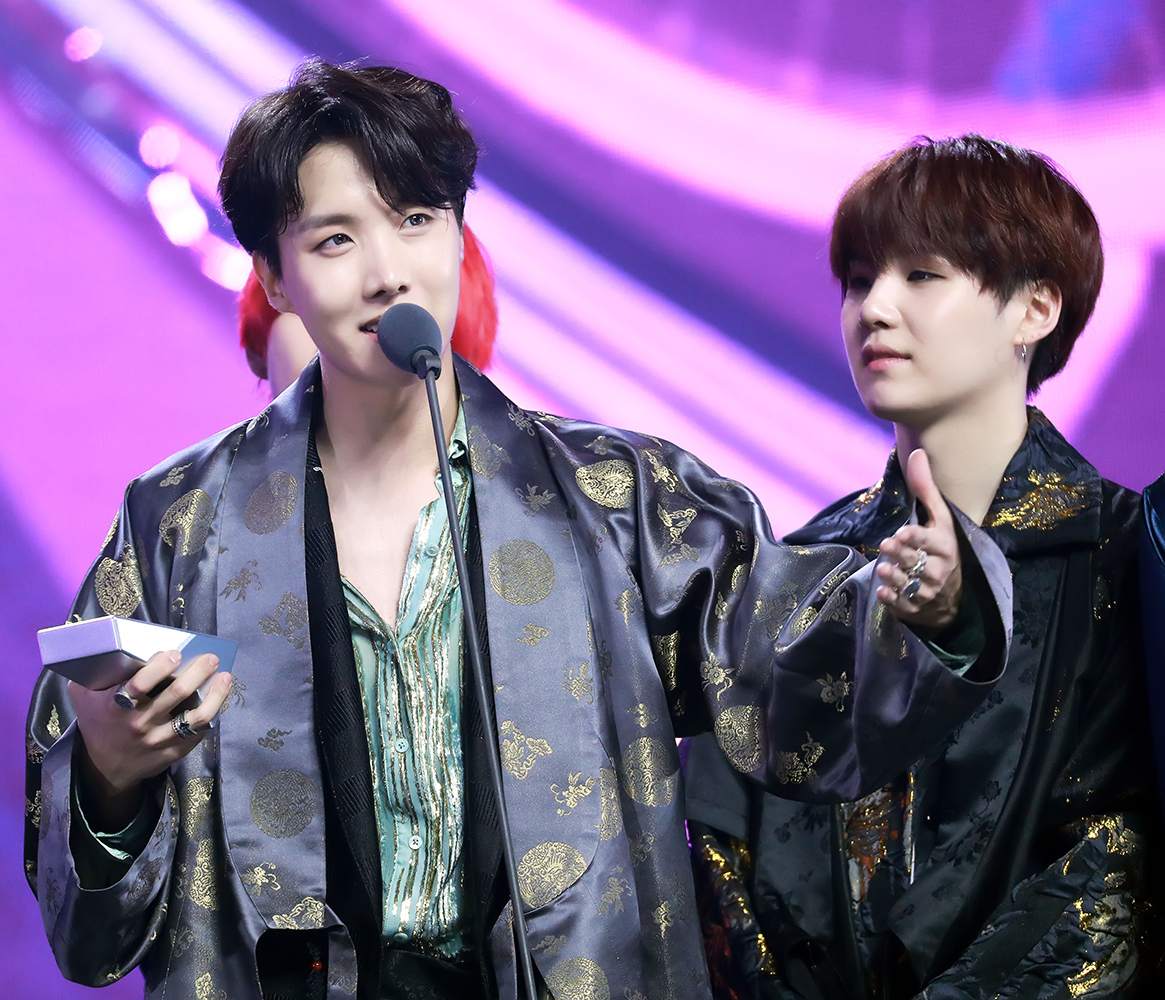 J-Hope at the 2018 MelOn Music Awards